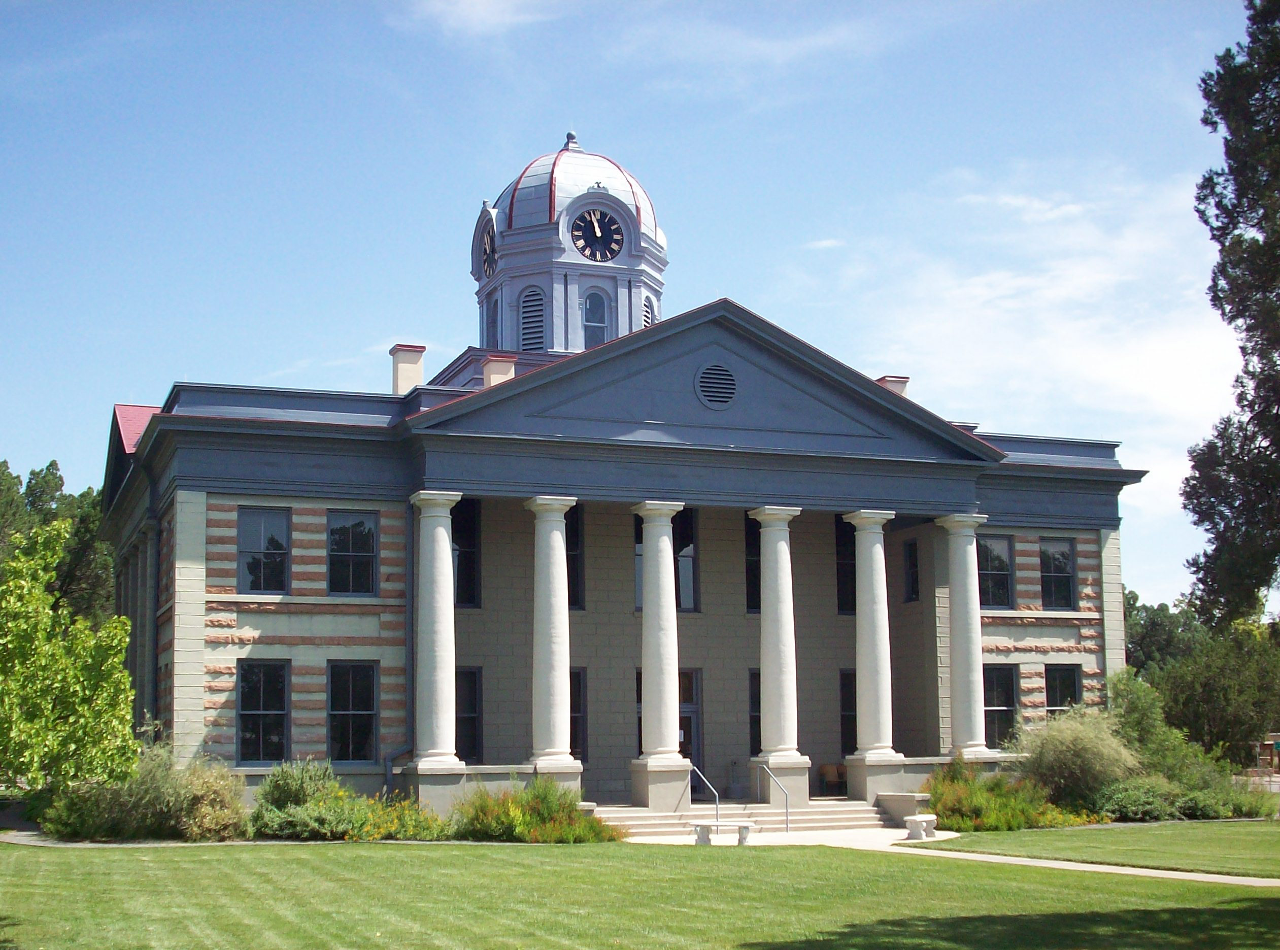 South entrance of the Jeff Davis County Courthouse facing Woodward Ave. in Fort Davis, Texas